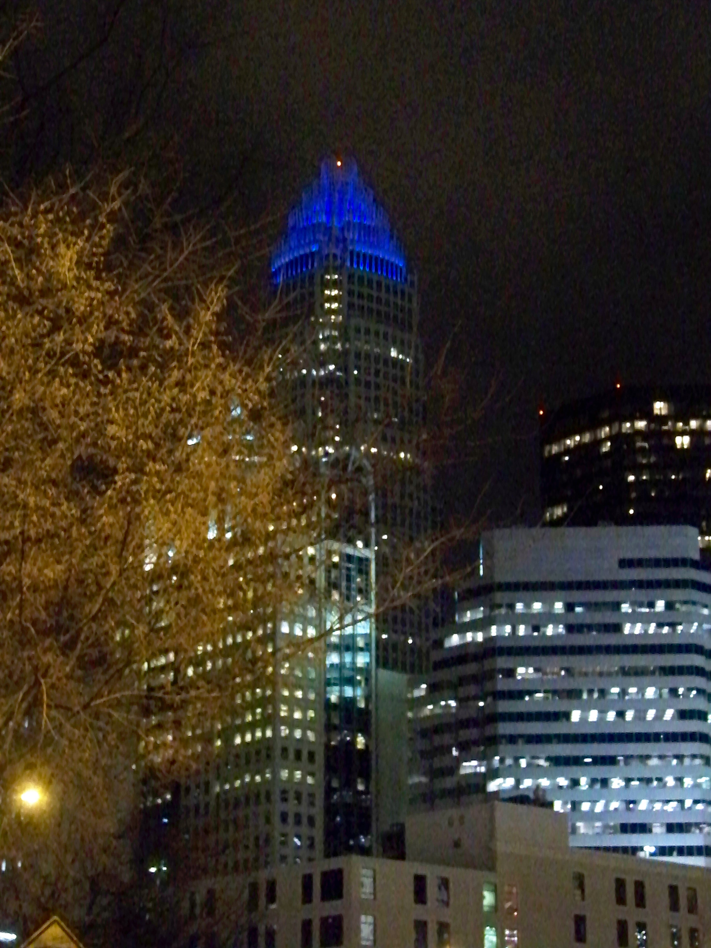 The Bank of America Corporate Center lit up in "Panther blue" for the Carolina Panthers' playoff game against the Arizona Cardinals, 1/10/09